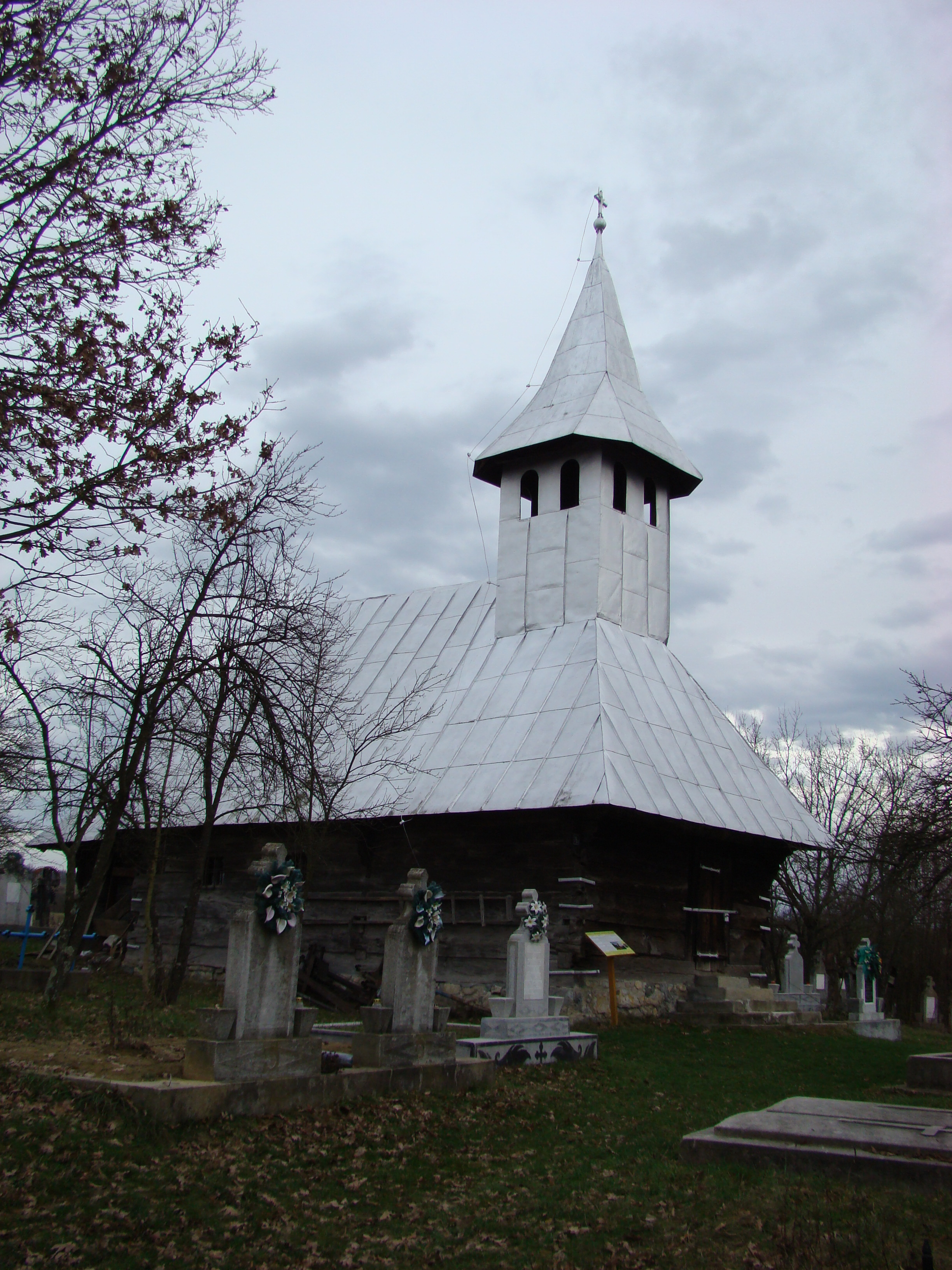 Șoimuș, Bihor county, Romania : the wooden church